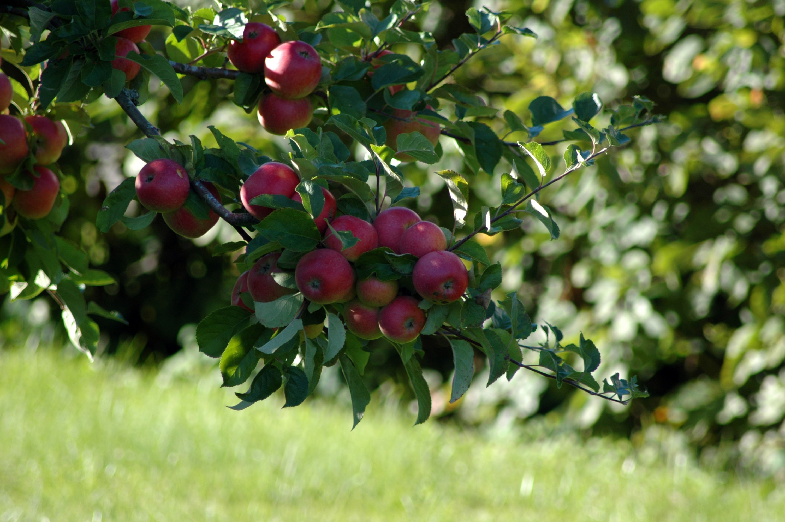 Apples on an appeltree